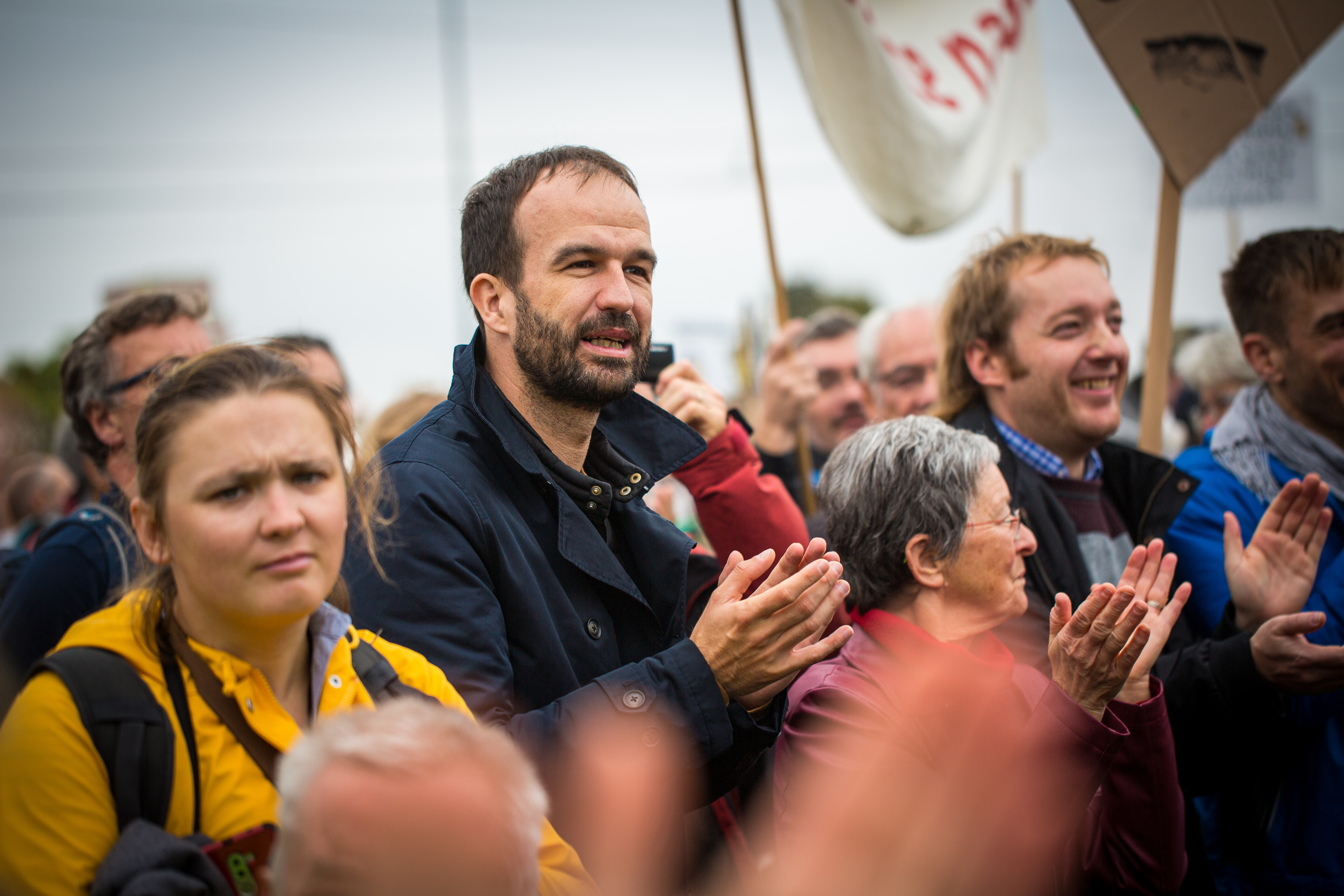 in the context of the reform of the CAP, an important citizen mobilization took place in Strasbourg to oppose the current project and demand a fairer, healthier, more sustainable Common agricultural policy !